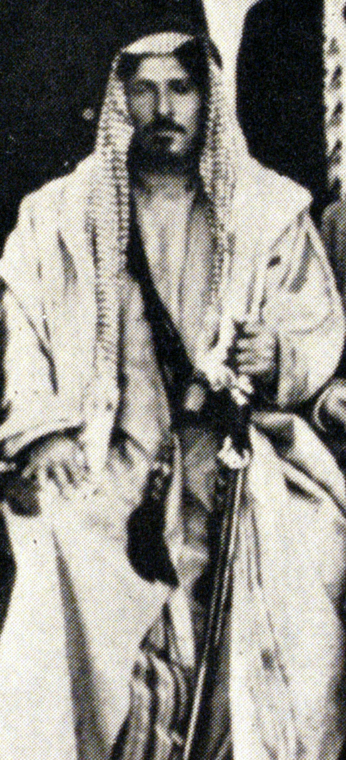 Sheikh Mithqal al-Faiz, Chief of Bani Sakhr, Jerusalem, 1933